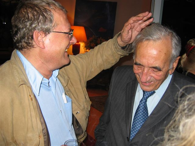 Adam Michnik (b. 1946, left), Polish journalist and Tadeusz Mazowiecki (1927-2013 right), Polish publicist and politician